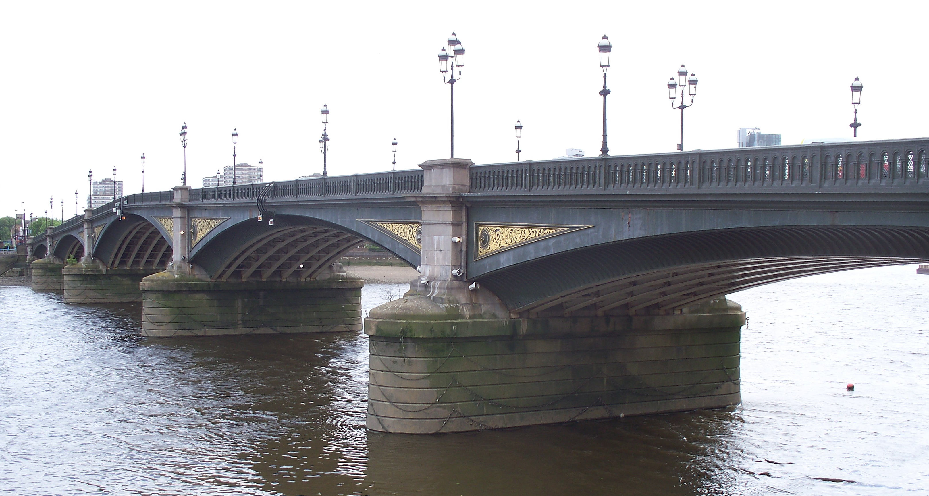 Battersea Bridge, London. Photograph taken in a public location in the UK of a building on permanent public display, and exempt from copyright under Section 62 of the Copyright Designs & Patents Act 1988 ("it is not an infringement of copyright to film, photograph, broadcast or make a graphic image of a building, sculpture, models for buildings or work of artistic craftsmanship if that work is permanently situated in a public place or in premises open to the public")